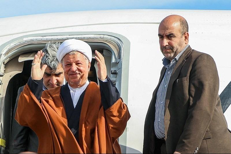 Iran's Ex-President Akbar Hashemi Rafsanjani Dies - TEHRAN (Tasnim) - Ex-Iranian president Akbar Hashemi Rafsanjani dies in hospital after suffering a heart attack.